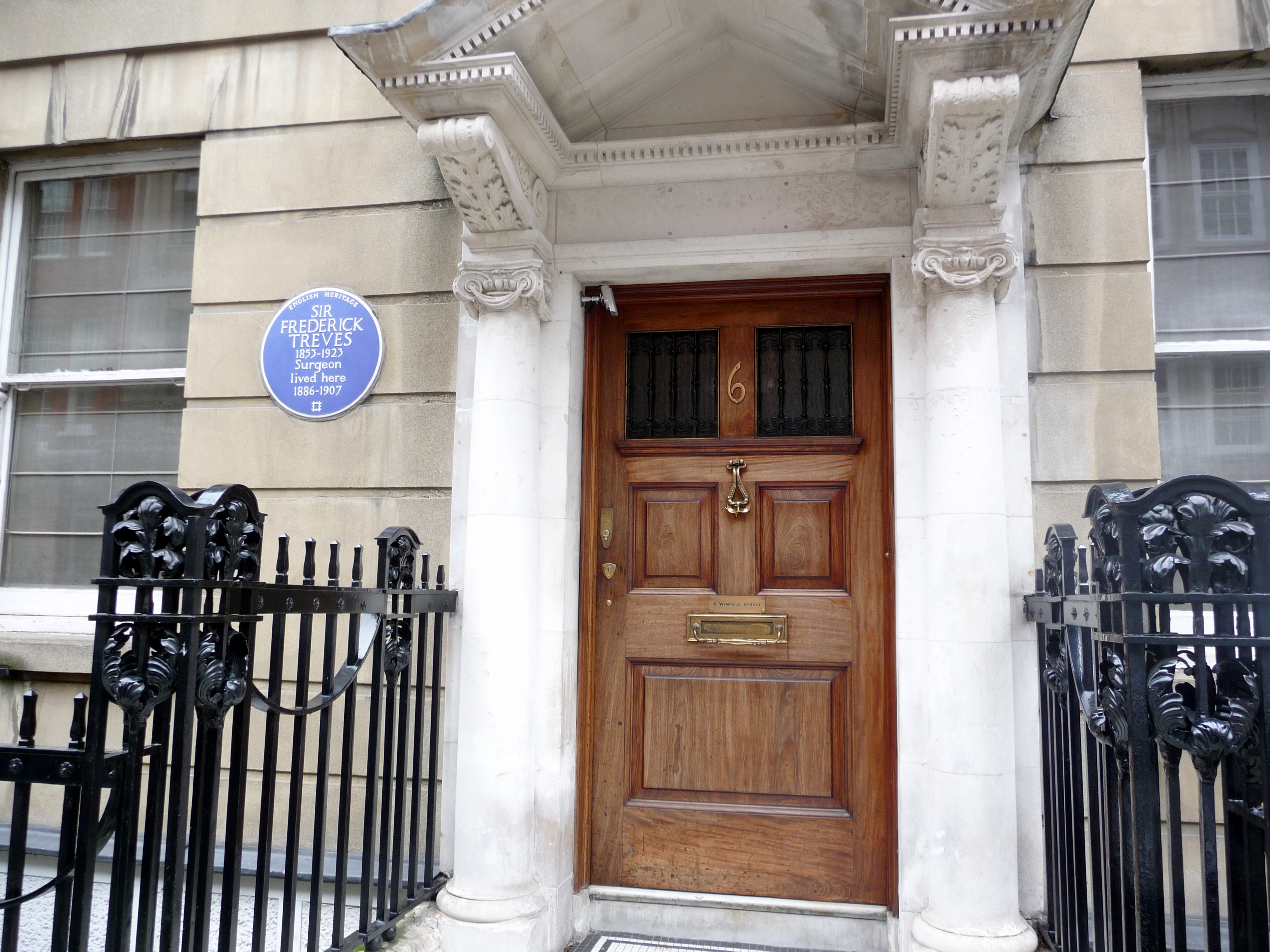 6, Wimpole street